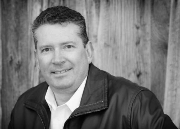 An image of author John D. Brown. Used with Permission from the author.